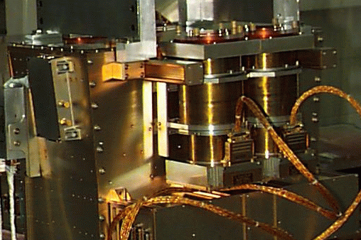 HETE instrument fregate